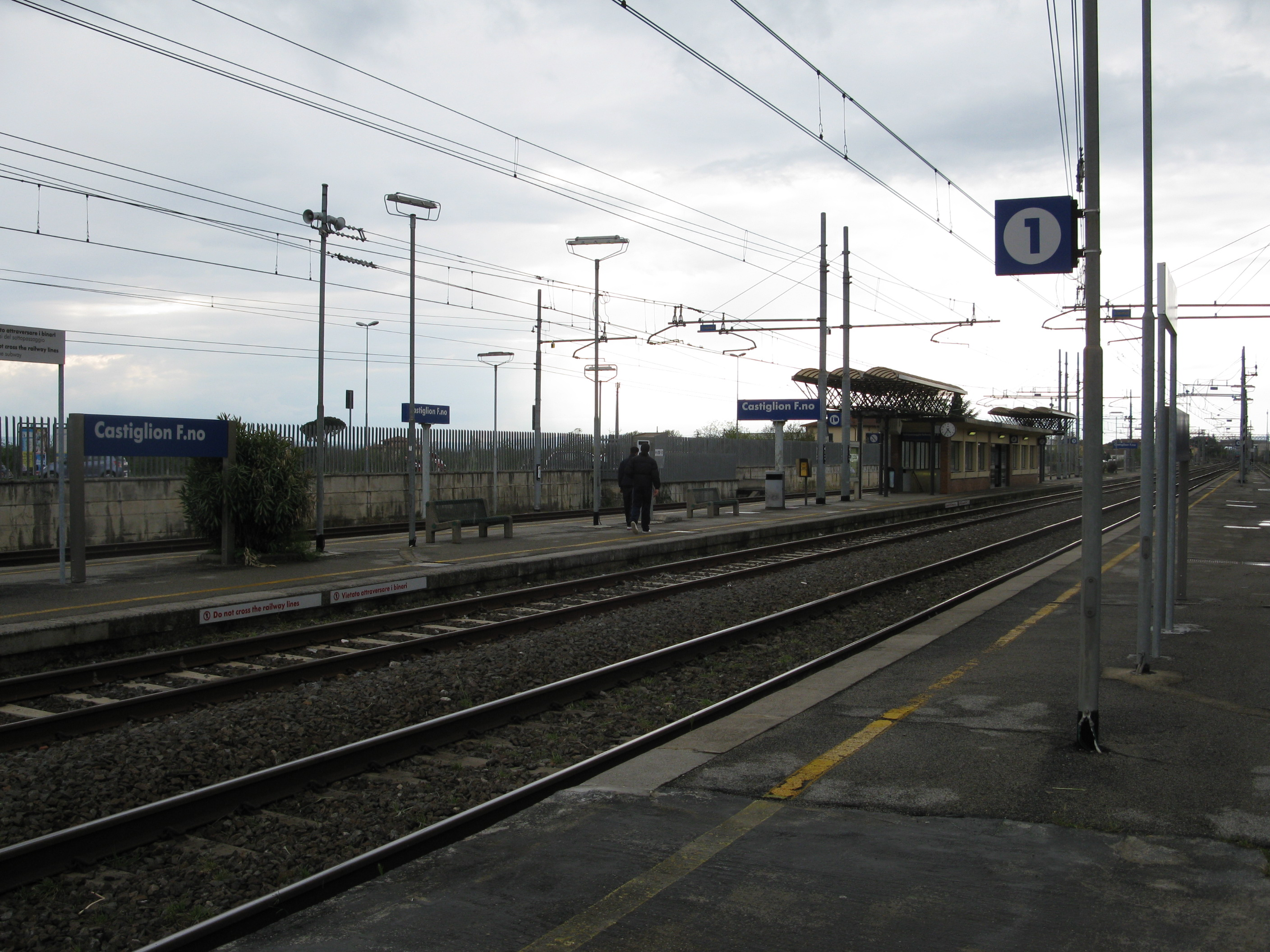 Castiglion Fiorentino railway station, platforms 2 and 3